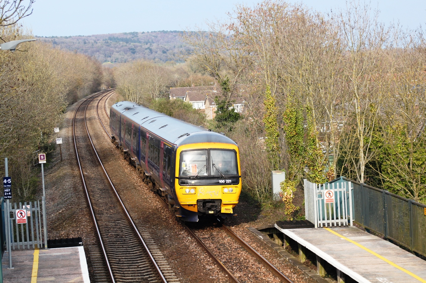 A Great Western Railway service from Bristol Parkway to Weston-super-Mare arrives at Nailsea & Backwell. 166221 is running 22 minutes late and delaying the faster Taunton service behind.